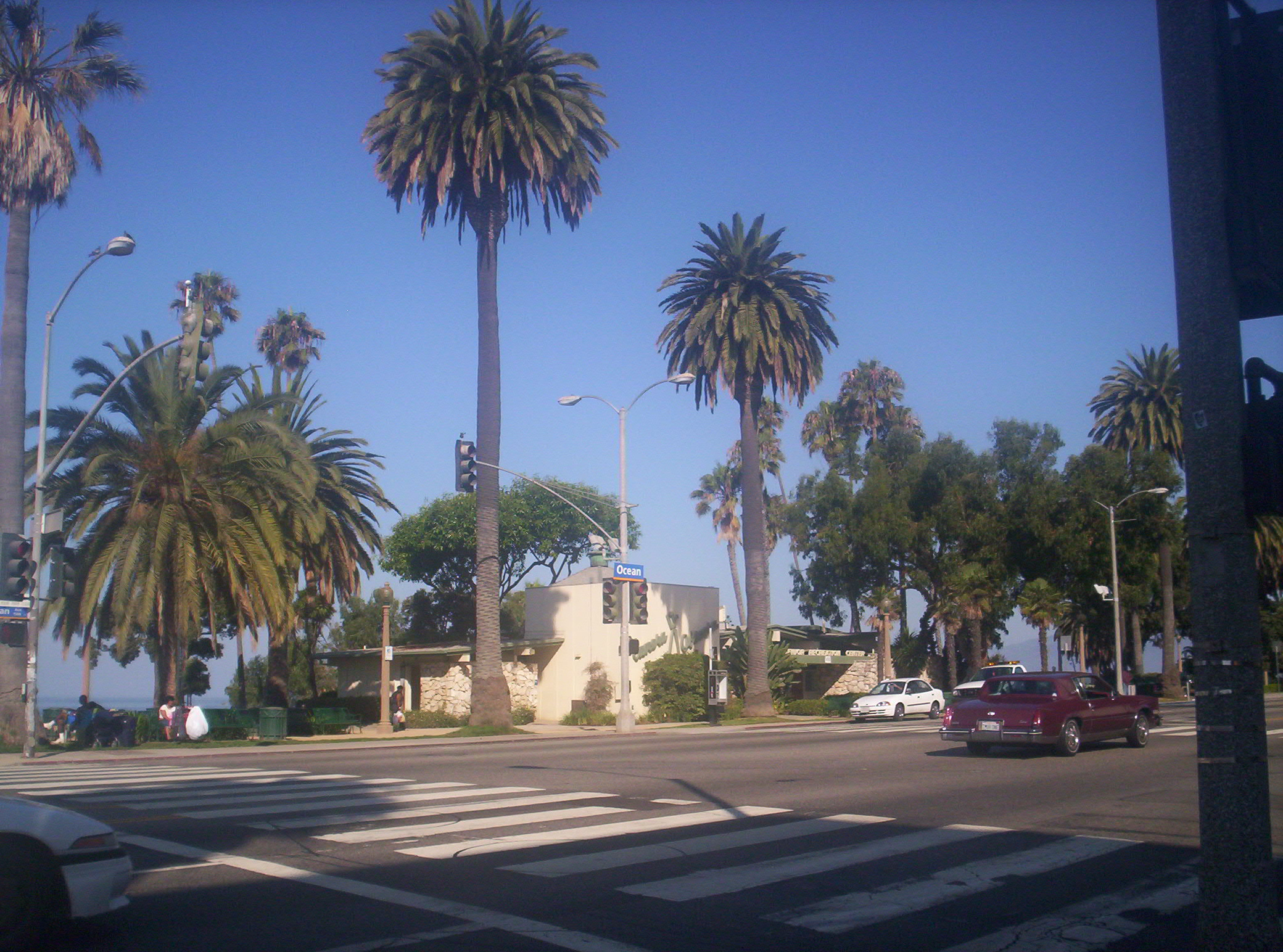 A picture taken by myself of Ocean Avenue in Santa Monica.